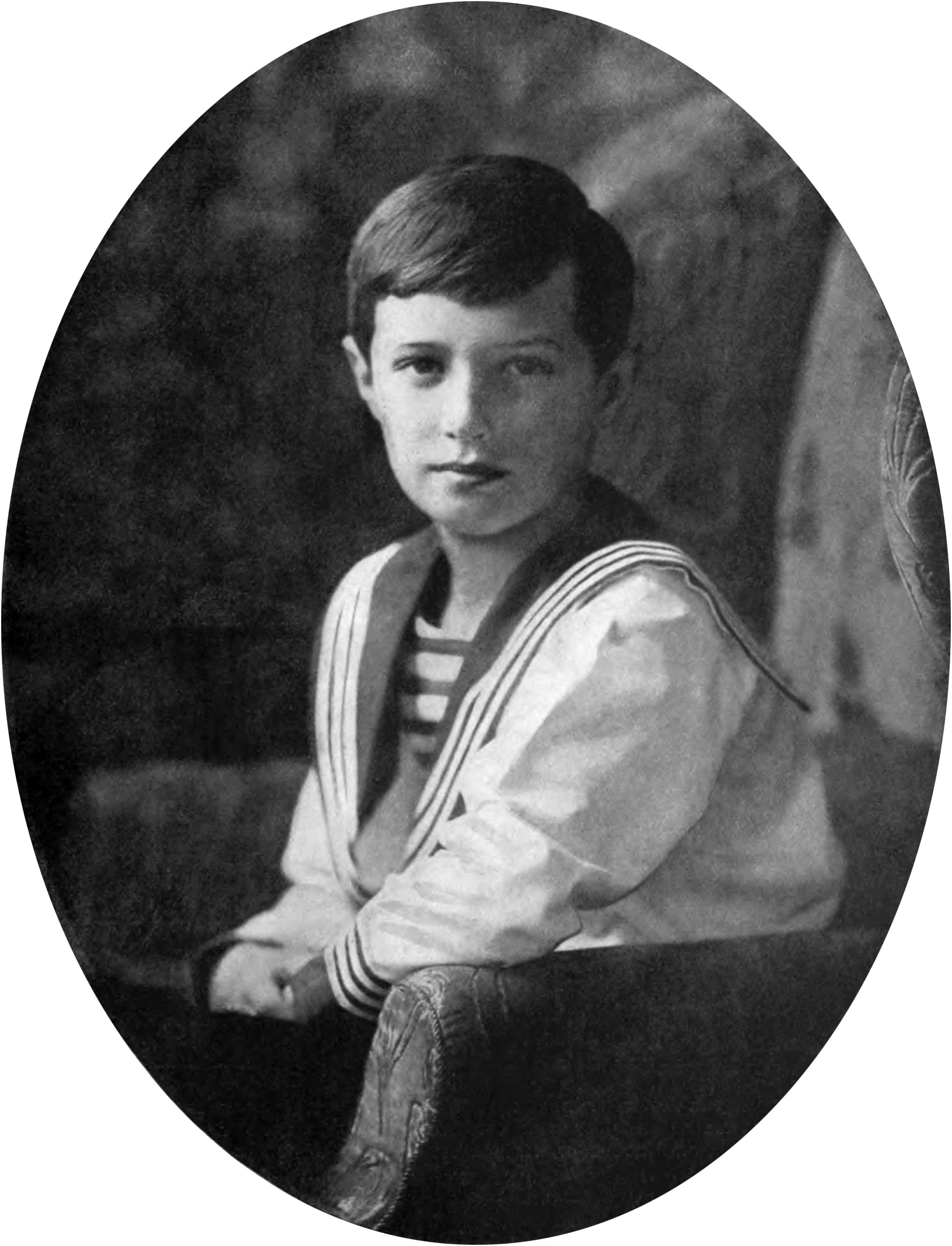 Tsarevich Alexei Nikolaievich of Russia.